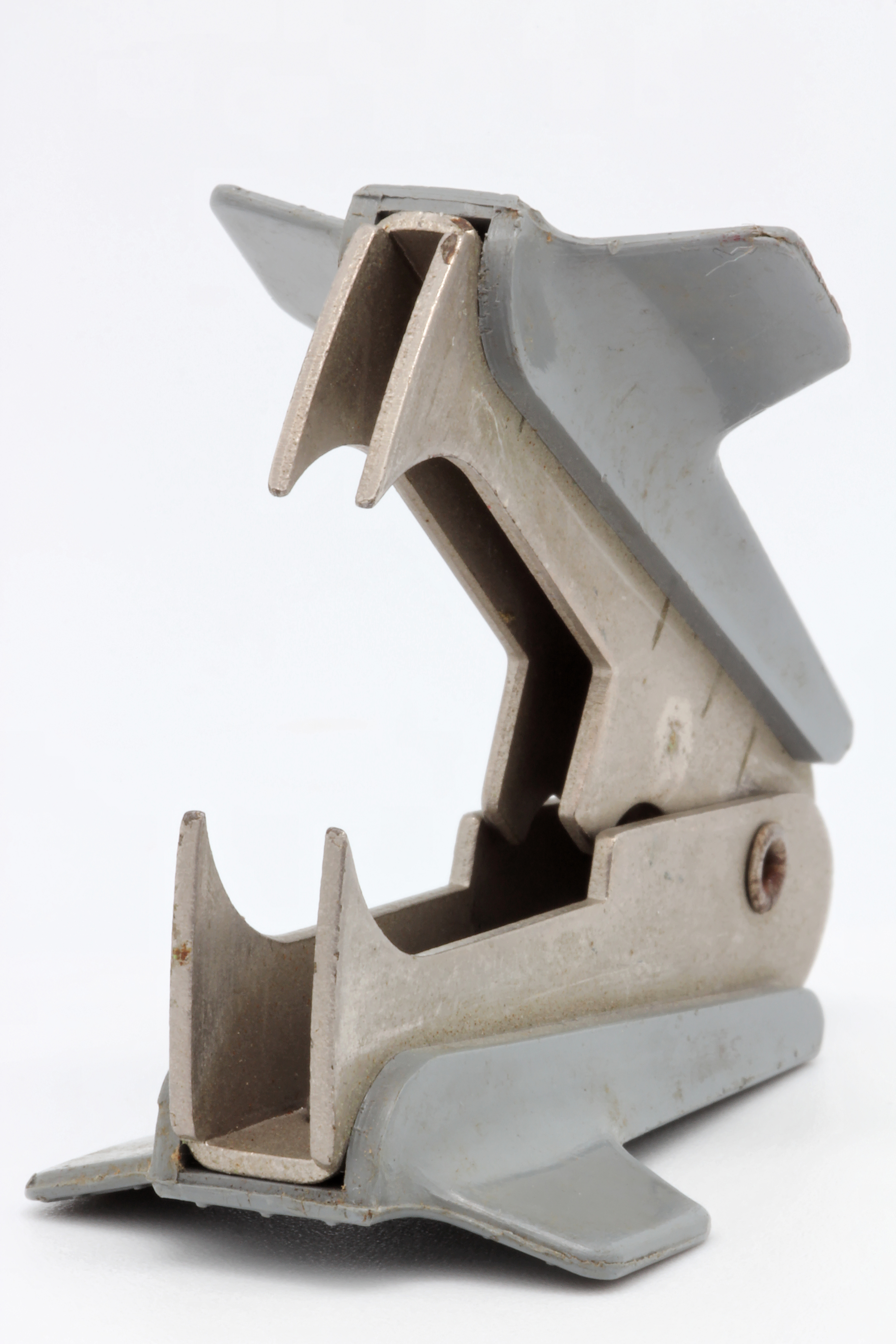 stample remover